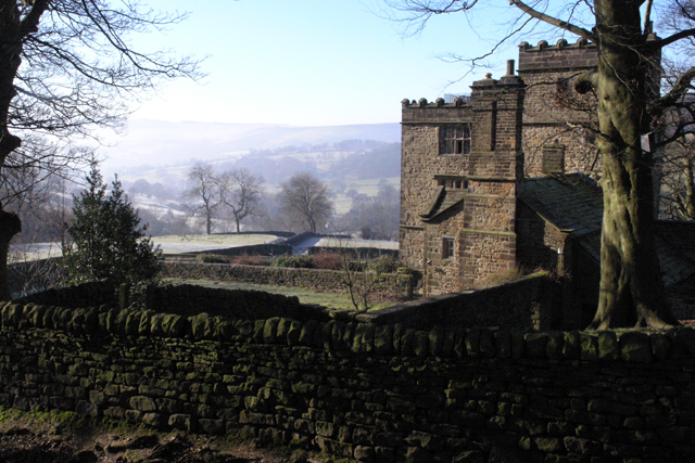 North Lees Hall For a perfect geograph description of this building see either of J147's images.